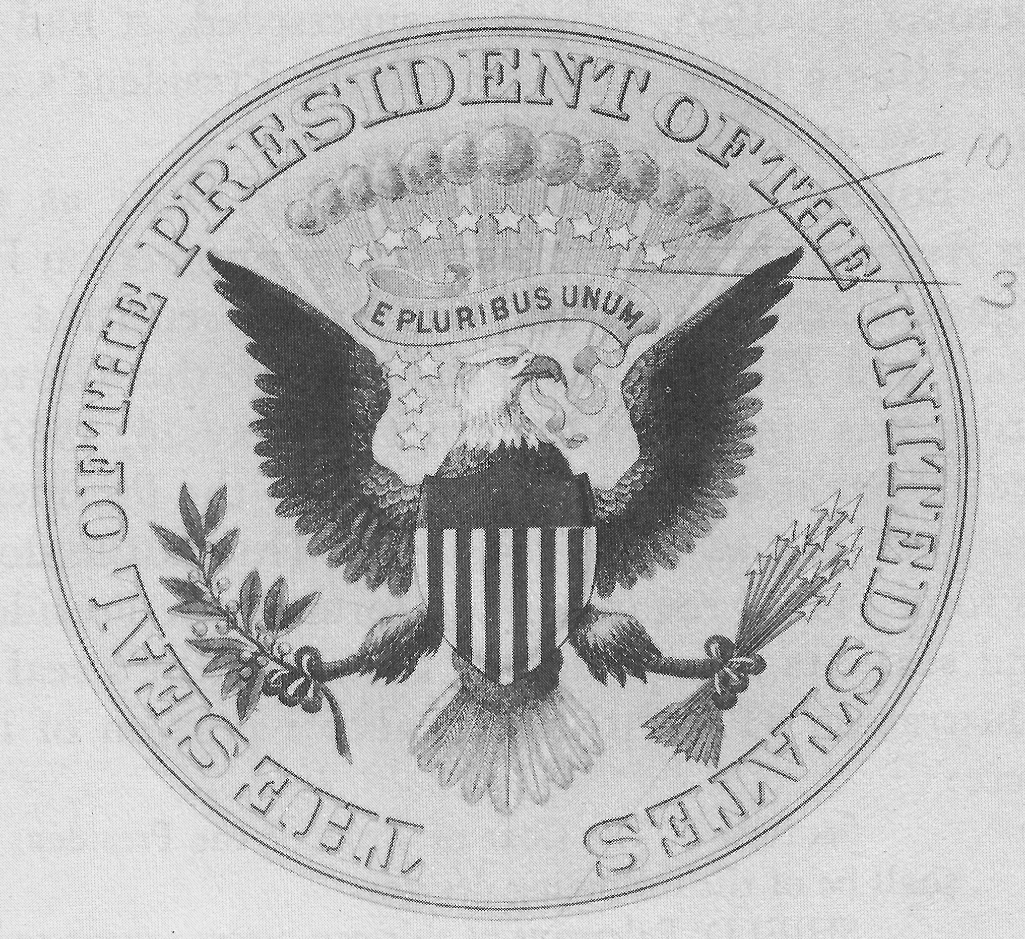 A print of the Seal of the President of the United States from about 1915. This is thought to be the one obtained by President Wilson (probably from the Bailey Banks & Biddle firm) and given to Commander Byron McCandless (probably on May 4, 1916) during discussions about redesigning the presidential flag, which happened later in 1916. The annotation on the right was about the arrangement of stars (row of 10, with a row of 3 underneath) on a separate representation of the seal -- the Martiny plaque which was on the floor of the north entranceway of the White House -- which was also brought up during the discussions. This print became the basis for the design of the 1916 presidential flag, which (in 1945, after turning the eagle's head to its right) was itself the basis for the modern version of the seal. The actual presidential seal was not changed to use this design until the 1945 change; this was just an artistic interpretation of the then-existing seal.